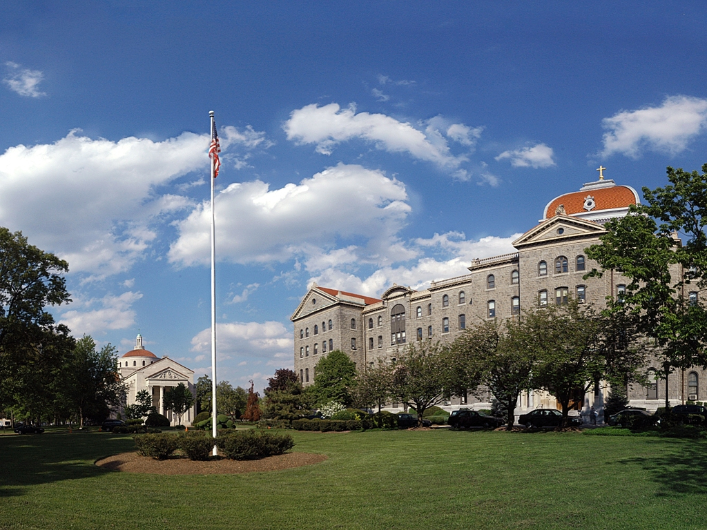 Wide-angle shot of the Trinity campus: Notre Dame Chapel on the left, Main building to the right.